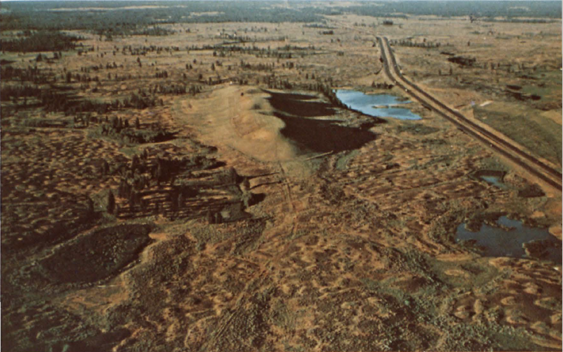 Loess island remnant in the Scablands on State Highway 90, 5 miles north of Sprague